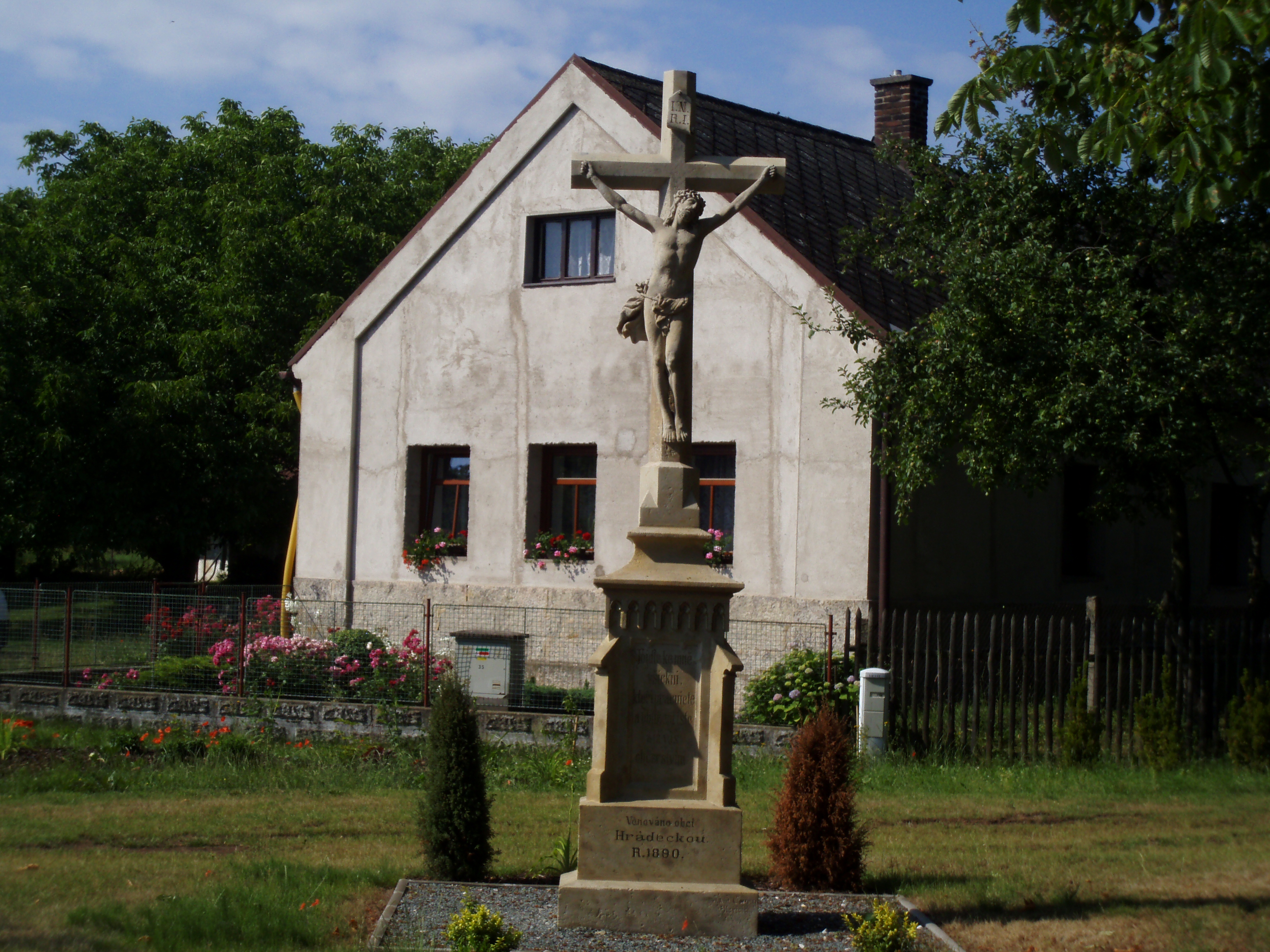 Wayside cross in Hradek u Nechanic